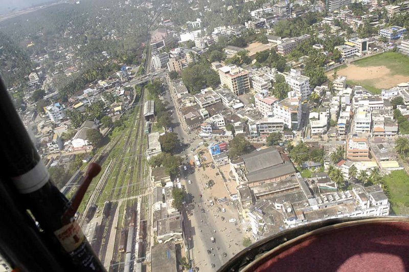 View of Thampanoor , Trivandrum City, India.